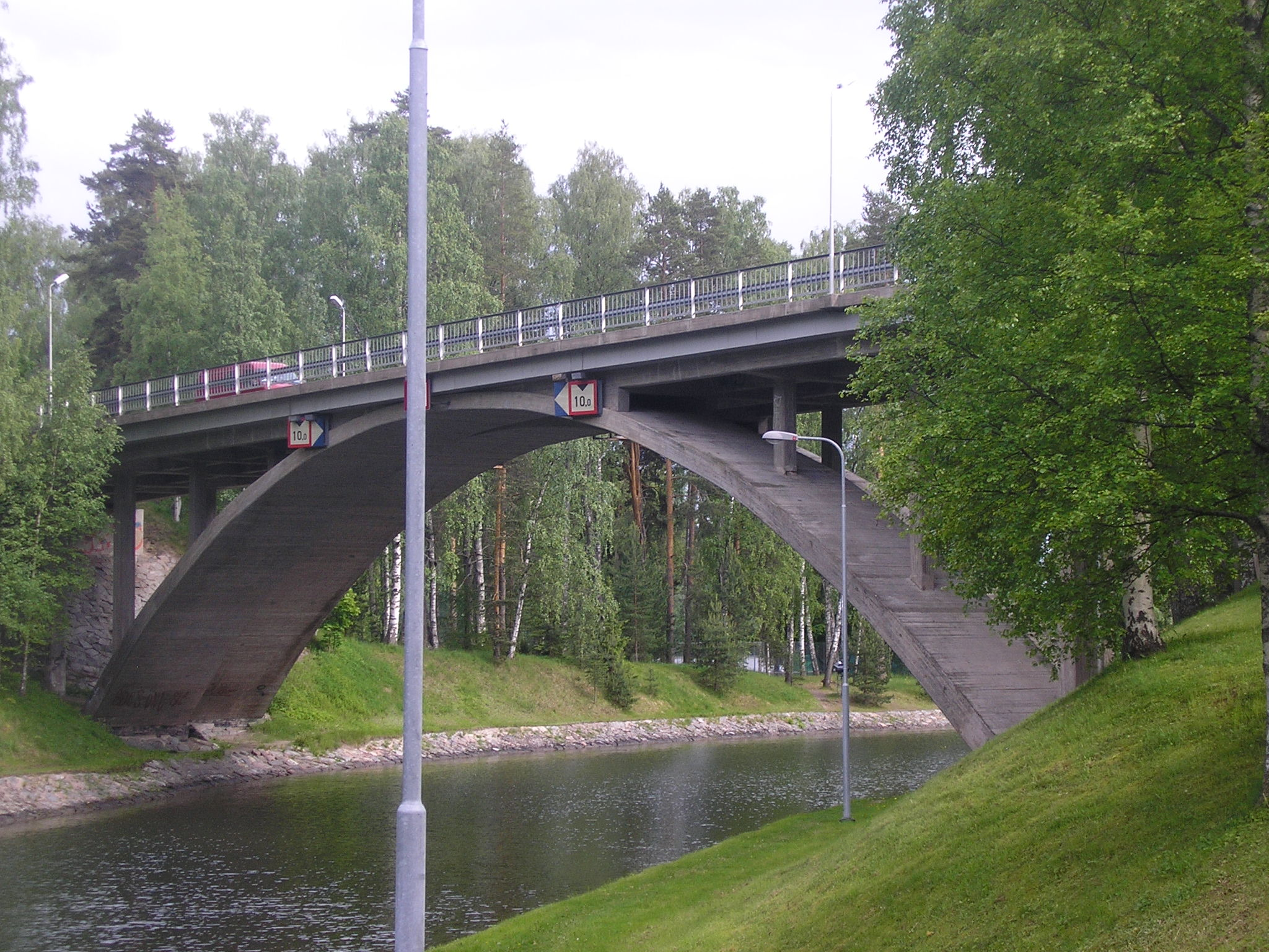 Bridge carrying National road 24 over Vääksy canal in Asikkala, Finland